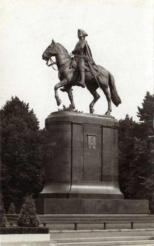 Statue of Czar Peter the Great in Riga, Latvia (at the time a part of the Russian Empire).